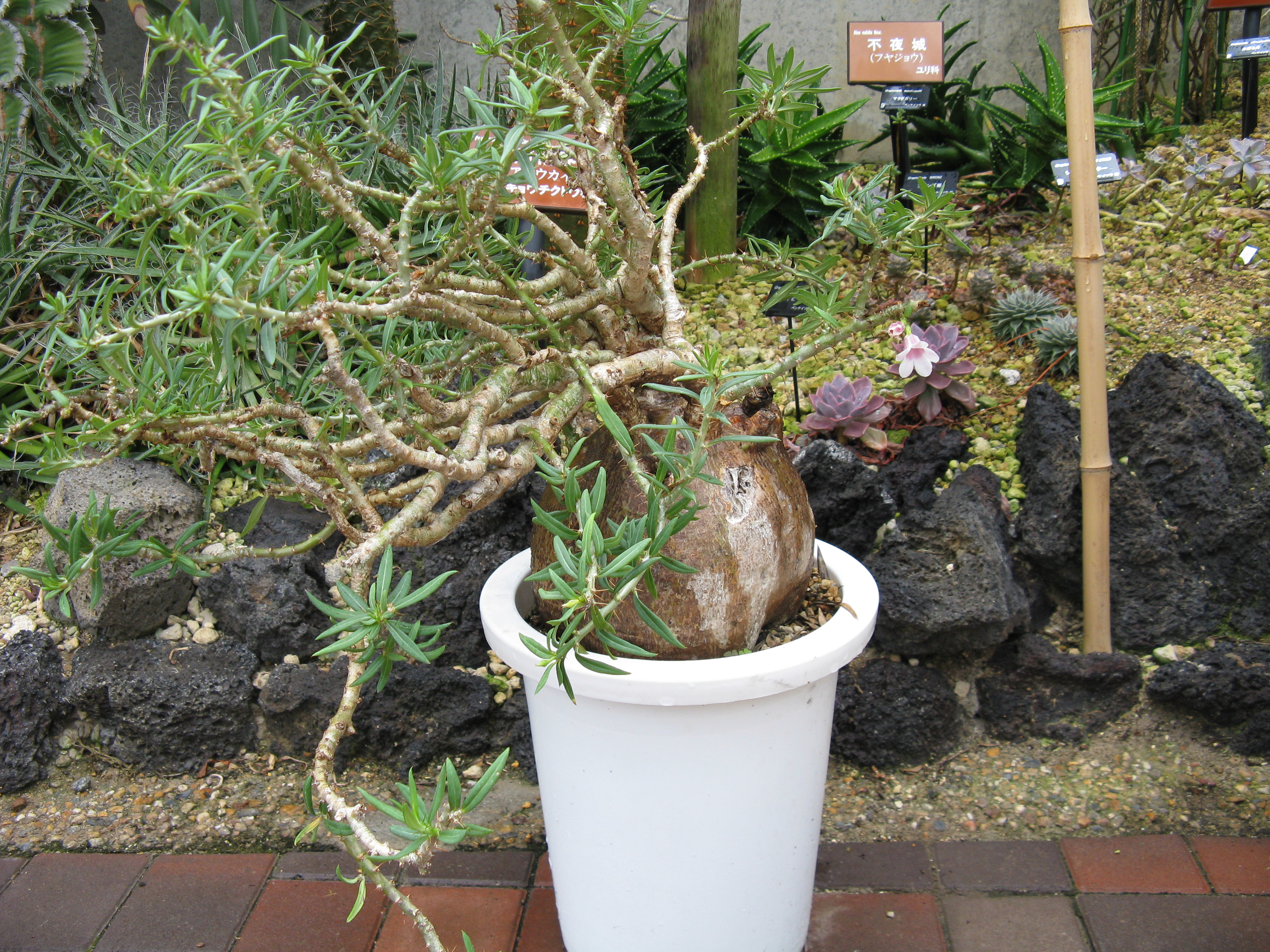 Scientific name Pachypodium bispinosum Place:Osaka Prefectural Flower Garden,Osaka,Japan